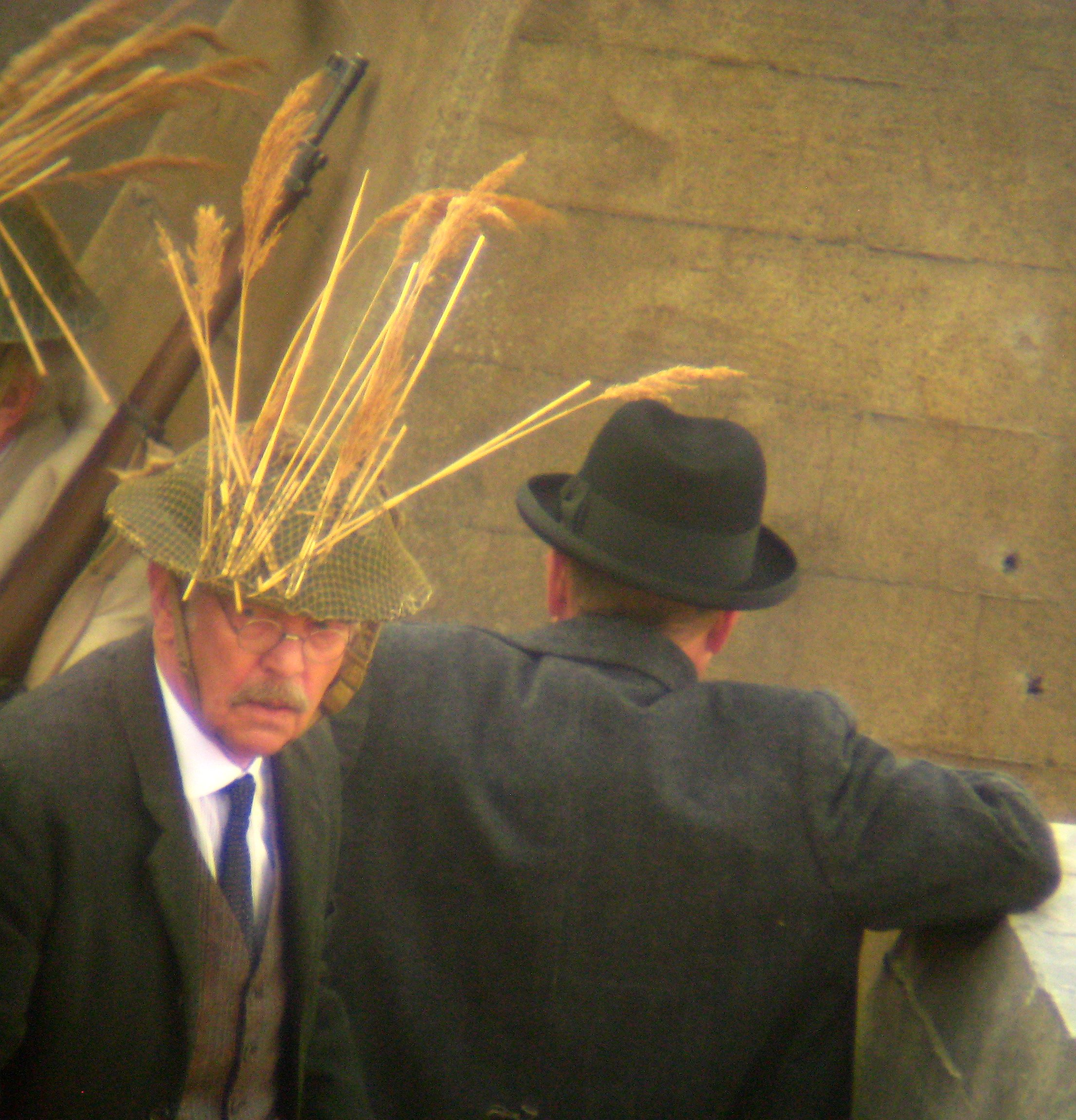 Tom Courtenay in the role of Corporal Jones in the 2015 remake of Dad's Army. (Capt Mainwaring with back to camera.) Digiscoped image taken during filming from the cliffs above North Landing Beach, Flamborough Head on 29 Oct 2014.